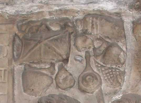 Roman soldiers with marching packs. Detail of sarcina (marching pack). From the cast of Trajan's column in the Victoria and Albert museum, London.